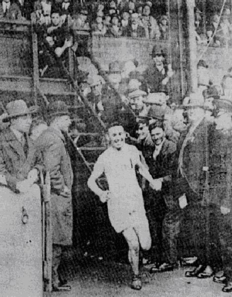 Samuel Ferris during the Polytechnic Marathon photography, reproduction, no restrictions on use Copyright: free of charges